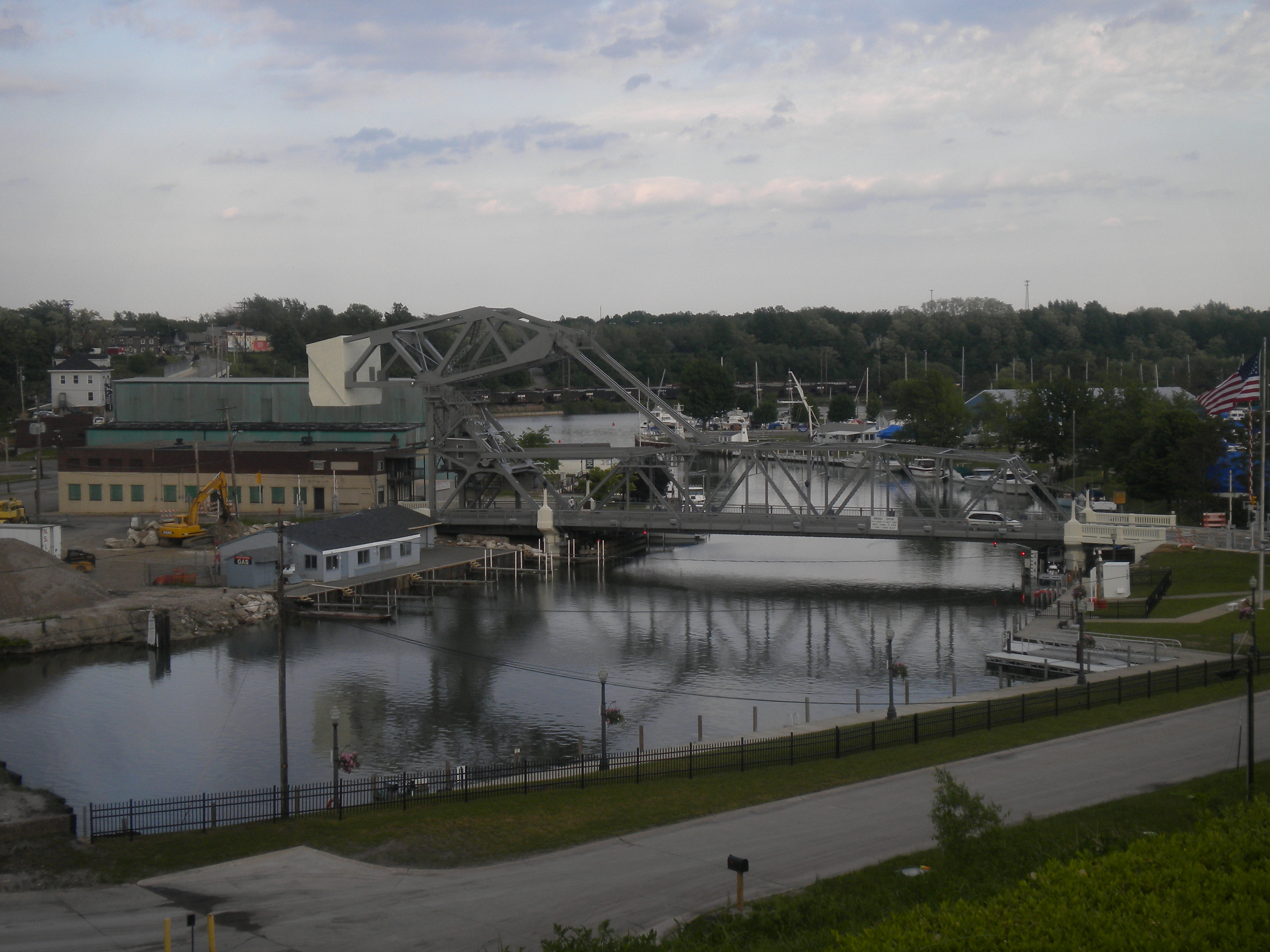 The Ashtabula Lift Bridge in Ashtabula Harbor, Ohio